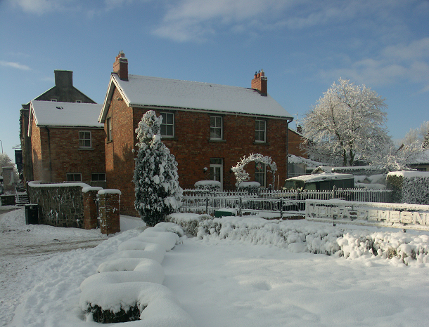 Moira Demesne entrance in winter.